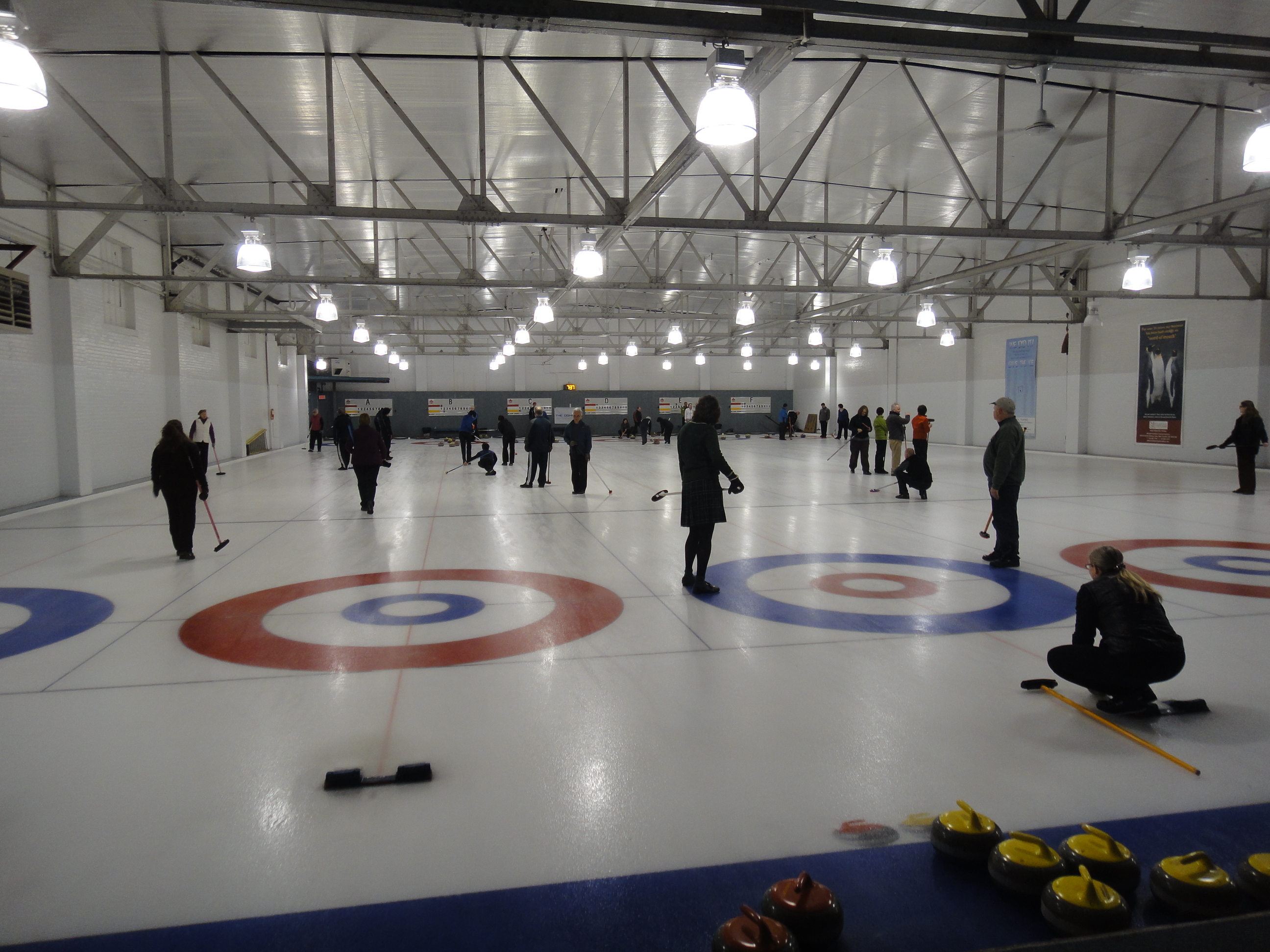 The Royal Canadian Curling Club in Toronto, Ontario. Friday night mixed curling on the ice.